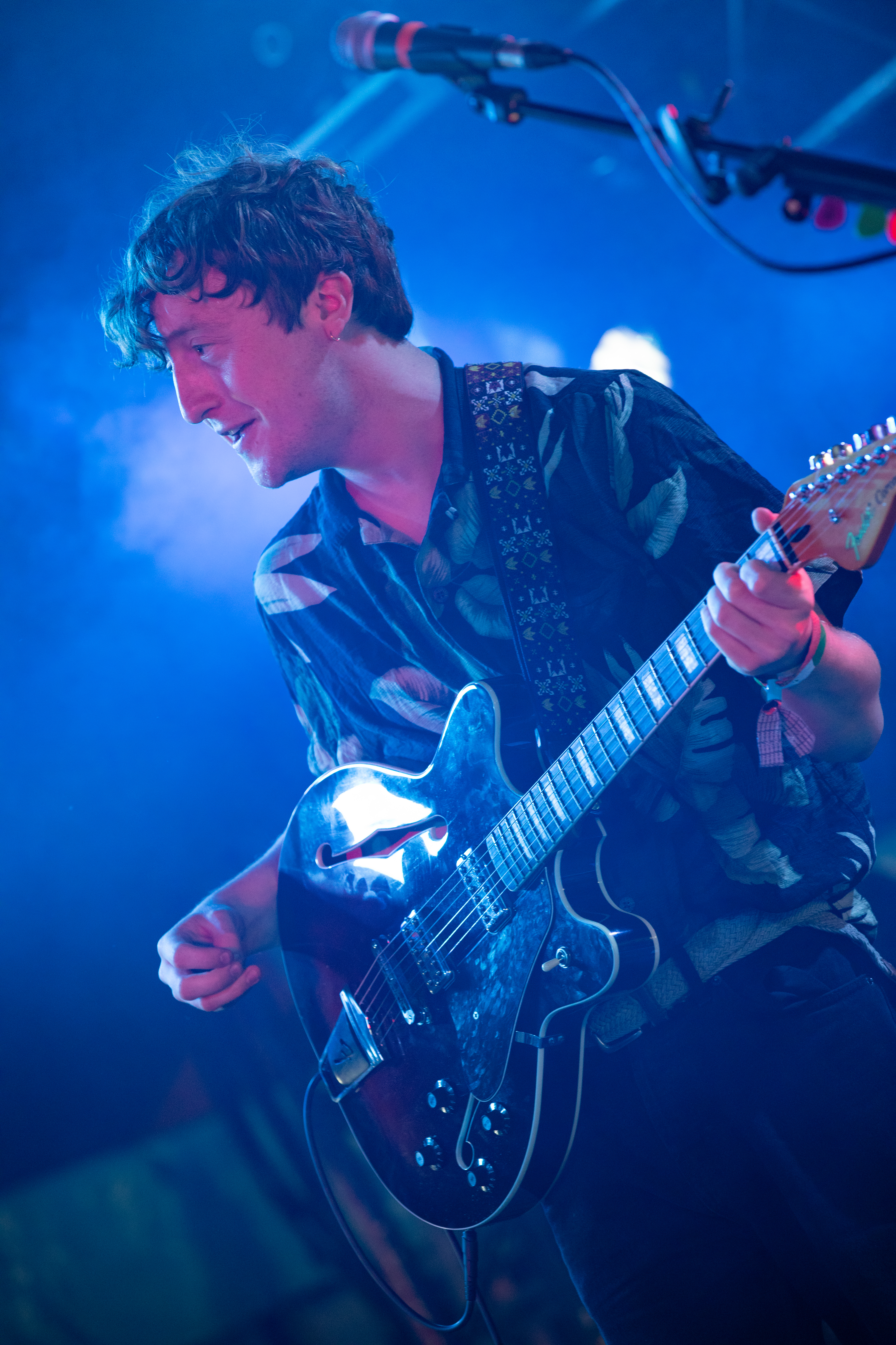 Boy azooga glastonbury festival 2019